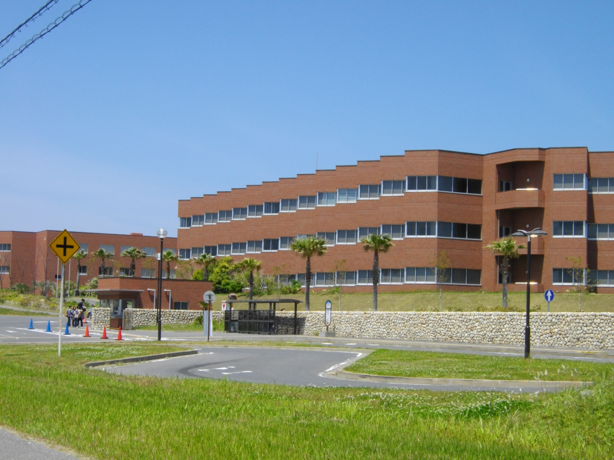 Chiba Institute of Science Marina Campus